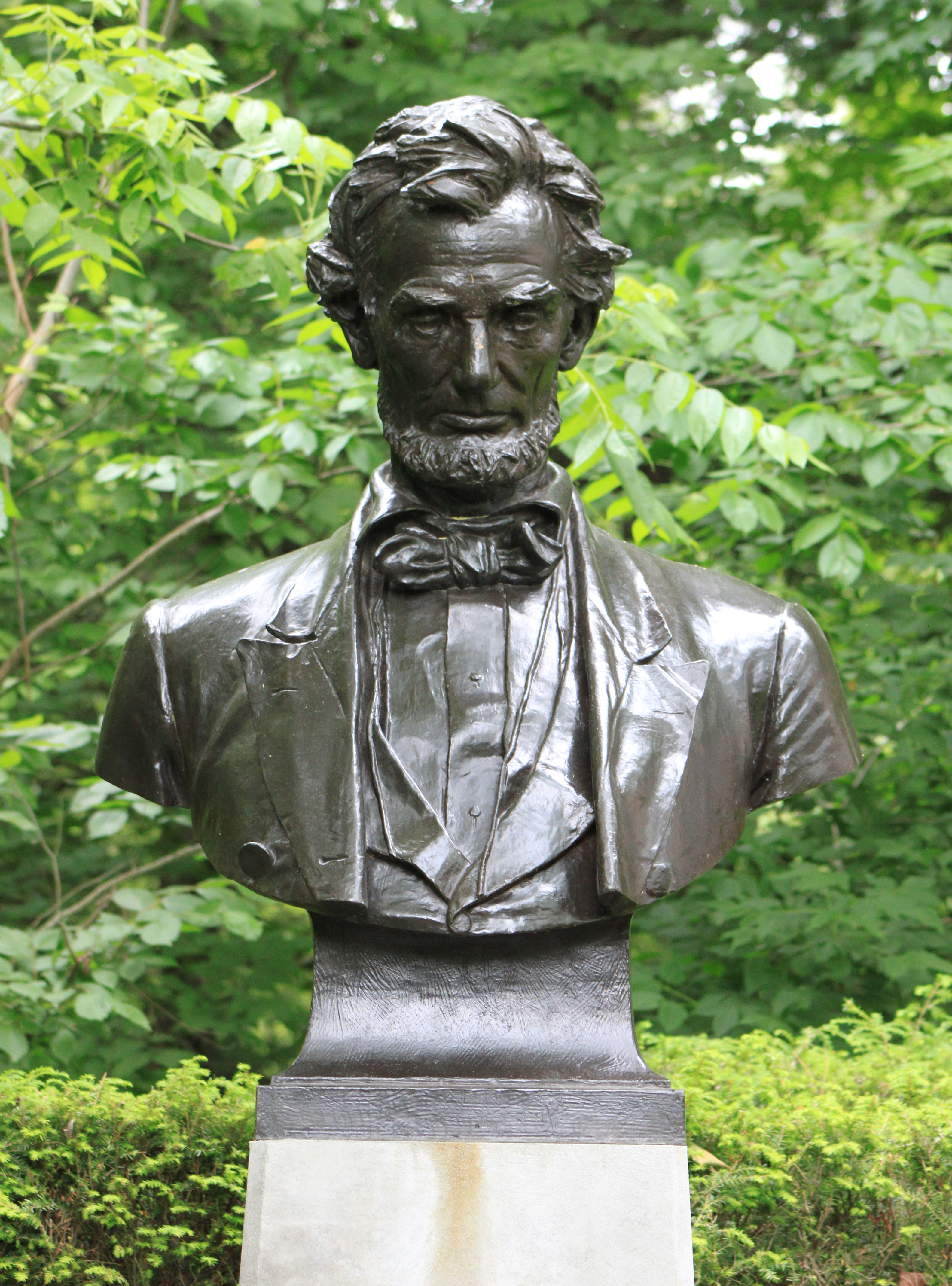 Augustus Saint-Gaudens Memorial, Cornish, New Hampshire